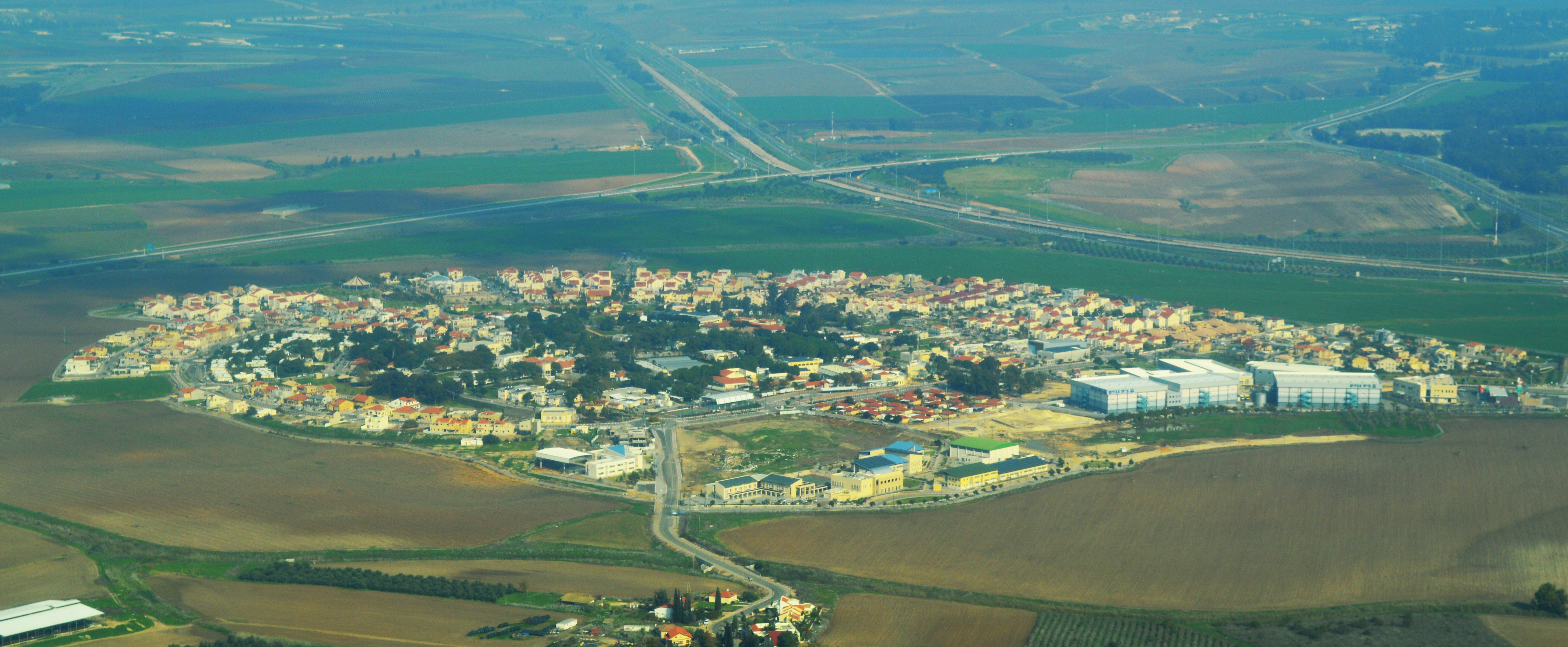 Yad Binyamin Aerial View